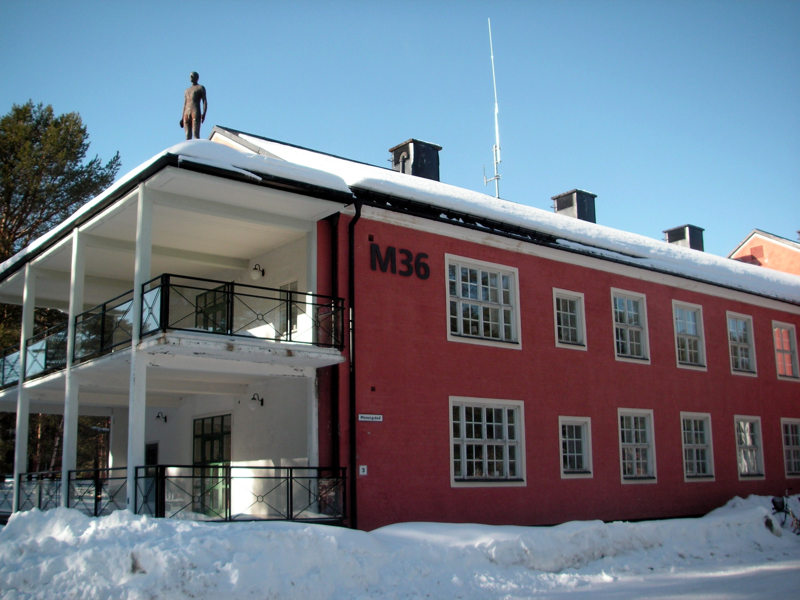 Building M36 from what used to be "Umedalen Mental Hospital" in Umeå, Sweden.